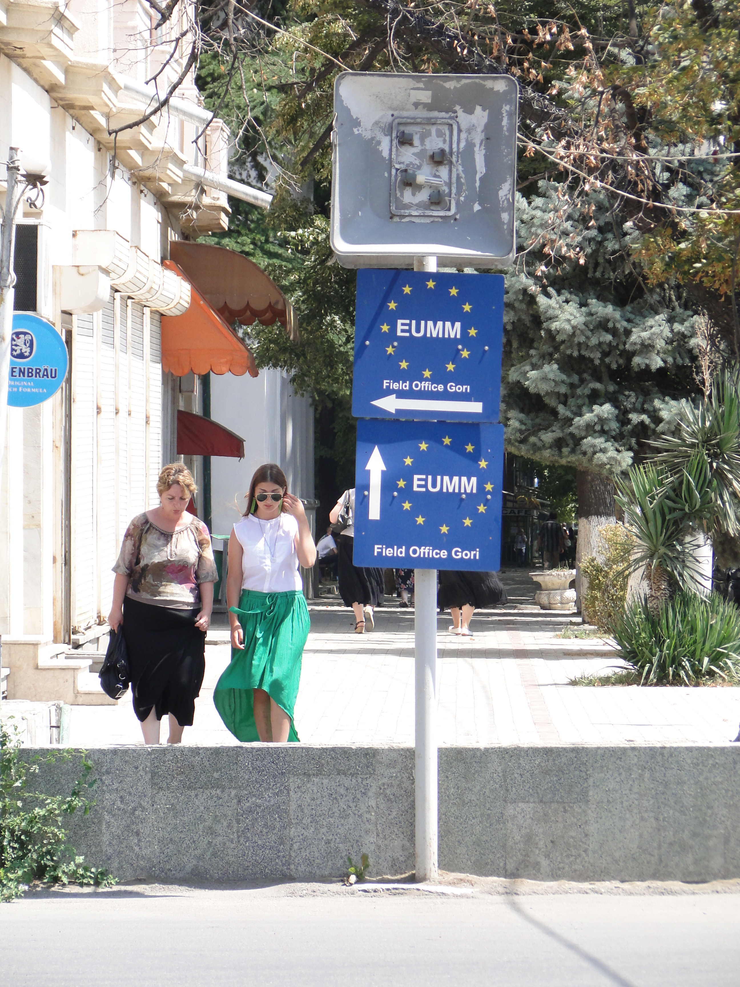 A street sign in Gori pointing to the field office of the European Union Monitoring Mission